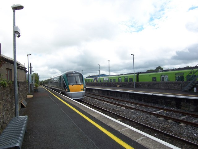 The Sligo Train The 11:05 from Dublin Connolly pulls into Longford station. This is one of the latest InterCity trains.